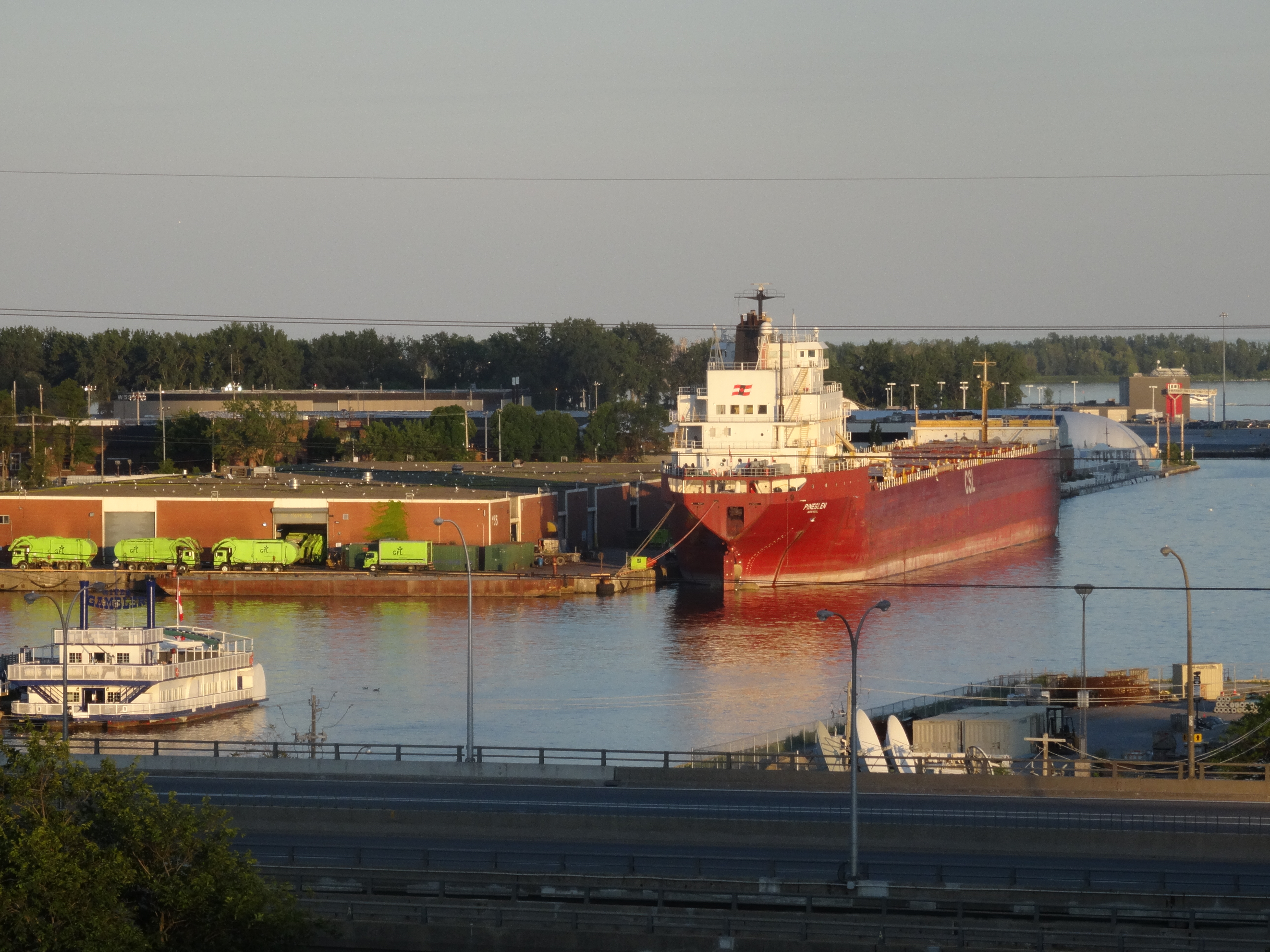 Freighter in Toronto, 2015 07 02 (1).JPG